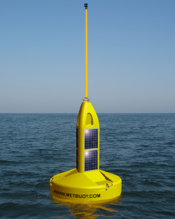 Weather buoy / data buoy for measuring meteorological and oceanographic data